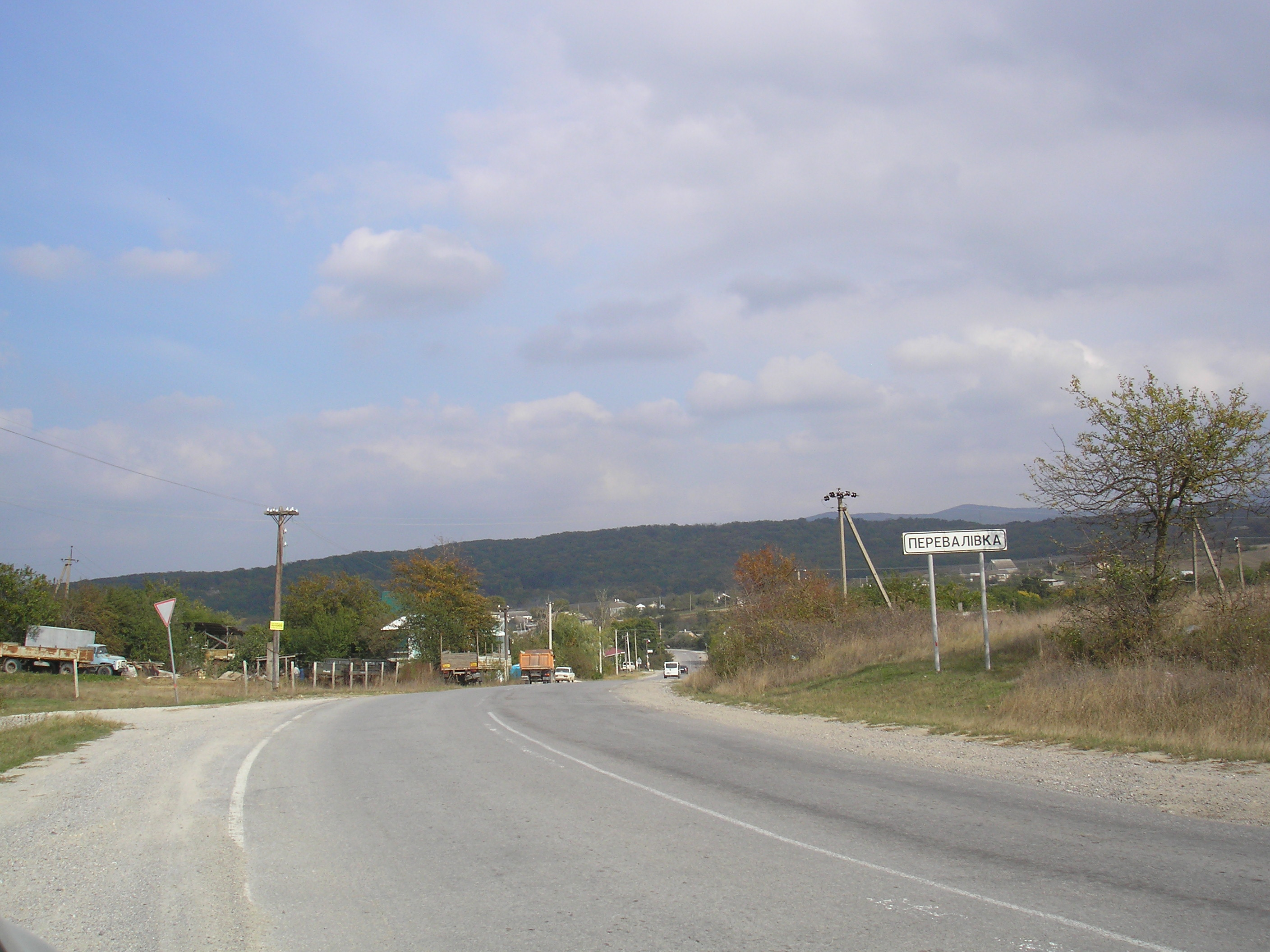 Village Perevalovka, Urban District Sudak Republic of Crimea